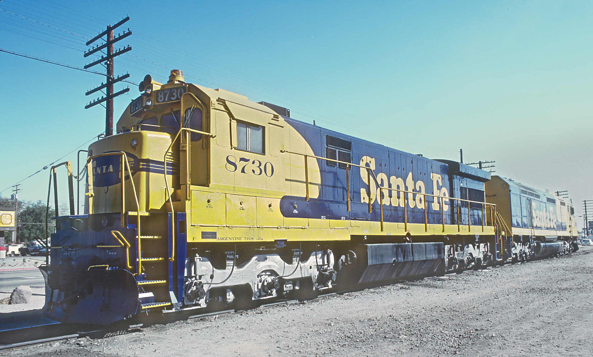 A Roger Puta Photograph